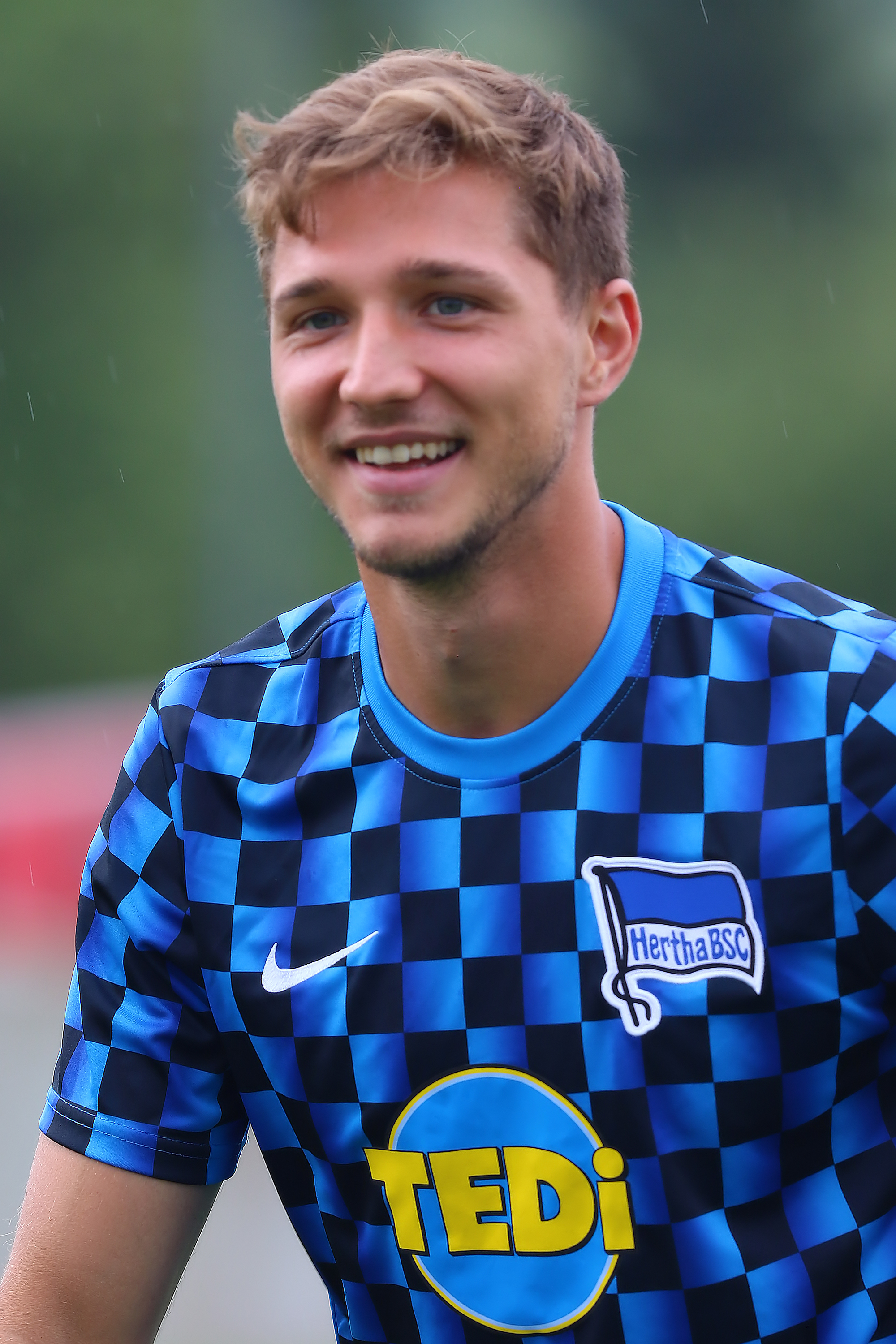 Friendly match Hertha BSC (blue-white shirts) vs. West Ham United (red-blue shirts) at 31-07-2019 3-5 (3-2) in the Sonnenseestadium in Ritzing. – The photo shows Niklas Stark (Hertha BSC).